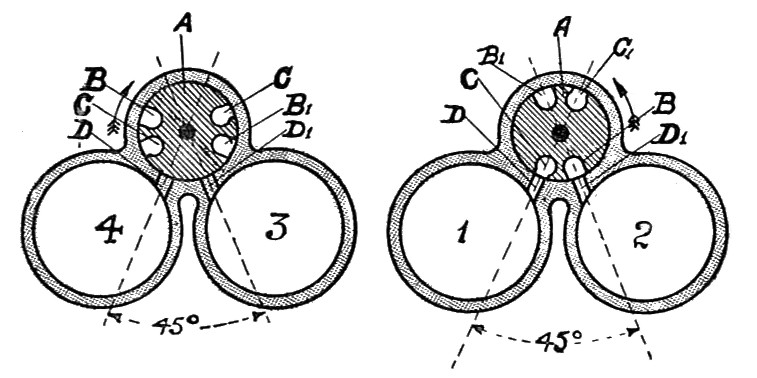 Itala Itala rotary valve Scans from 'The Book of the Motor Car', Rankin Kennedy C.E., 1912 See other images from this source in Scans from 'The Book of the Motor Car'